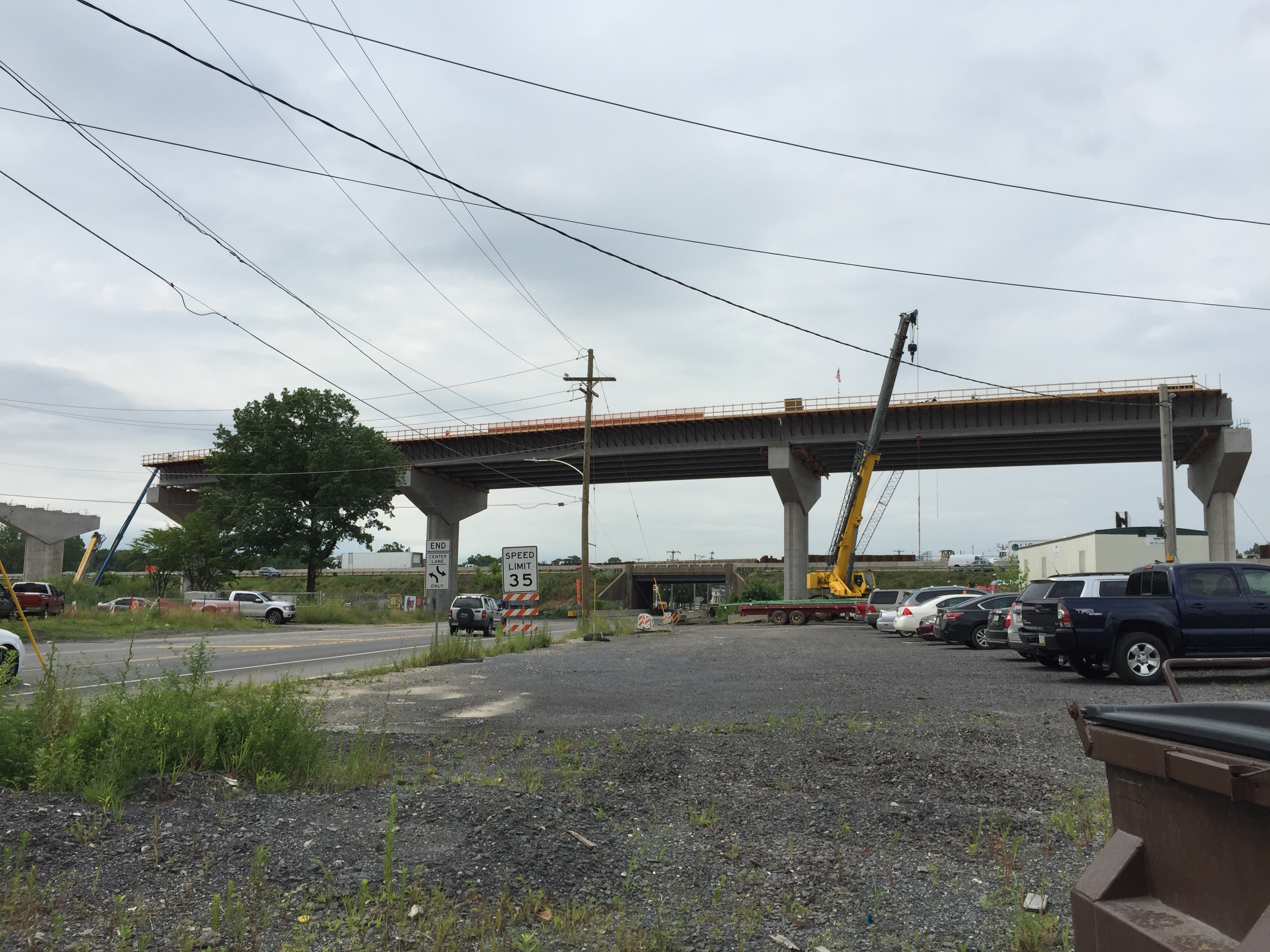 Partially constructed elevated highway ramp, planned to carry Interstate 95 southbound off of the Pennsylvania Turnpike toward Philadelphia, viewed from Pennsylvania Route 413 in Bristol Township, Bucks County, Pennsylvania